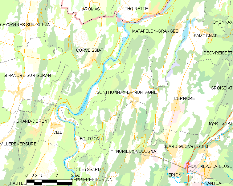 Map of French commune: Sonthonnax-la-Montagne Map commune FR insee code 01410.png